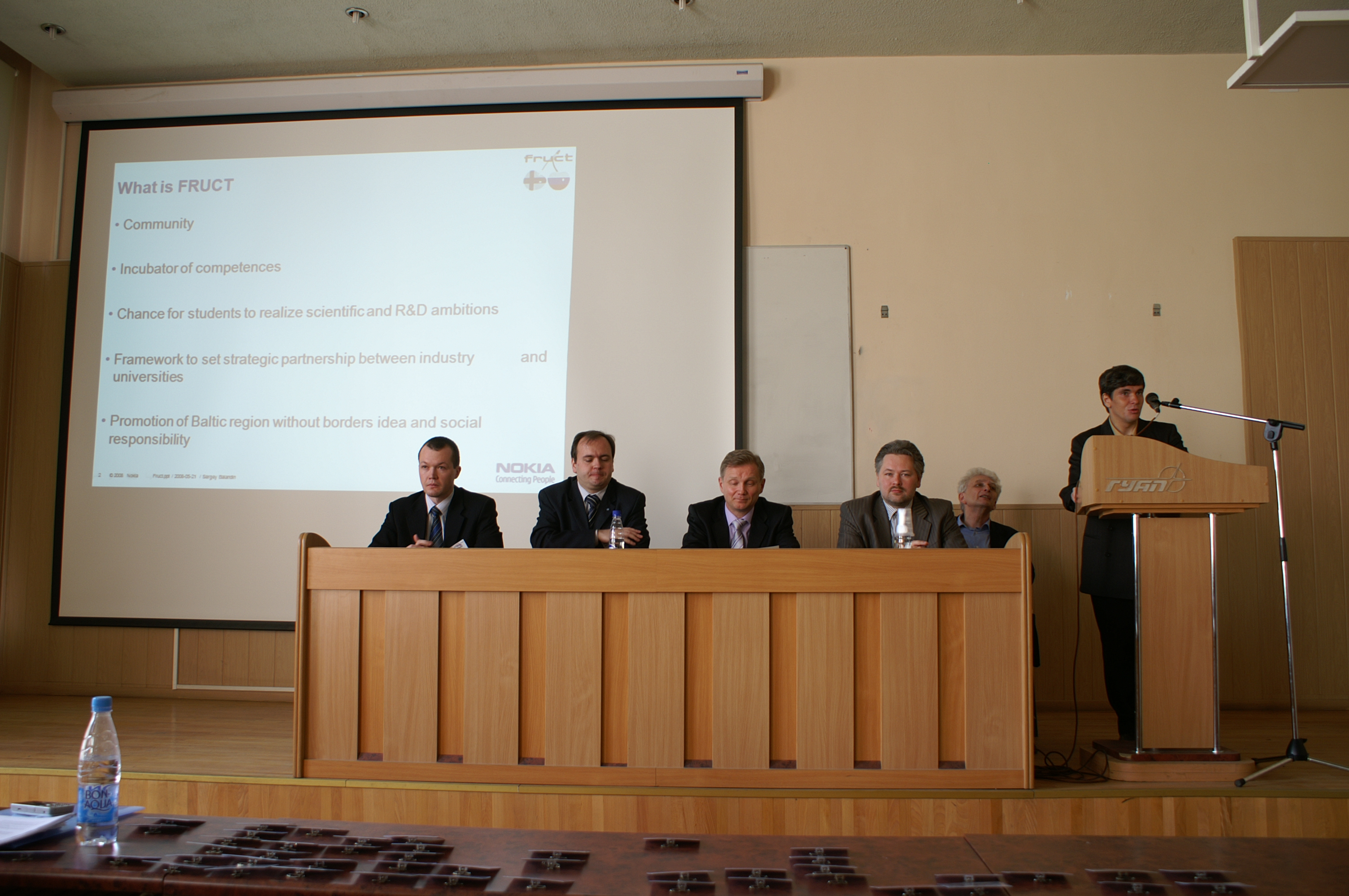 Opening of the 3rd conference in Saint Petersburg, Saint Petersburg State University of Aerospace Instrumentation.